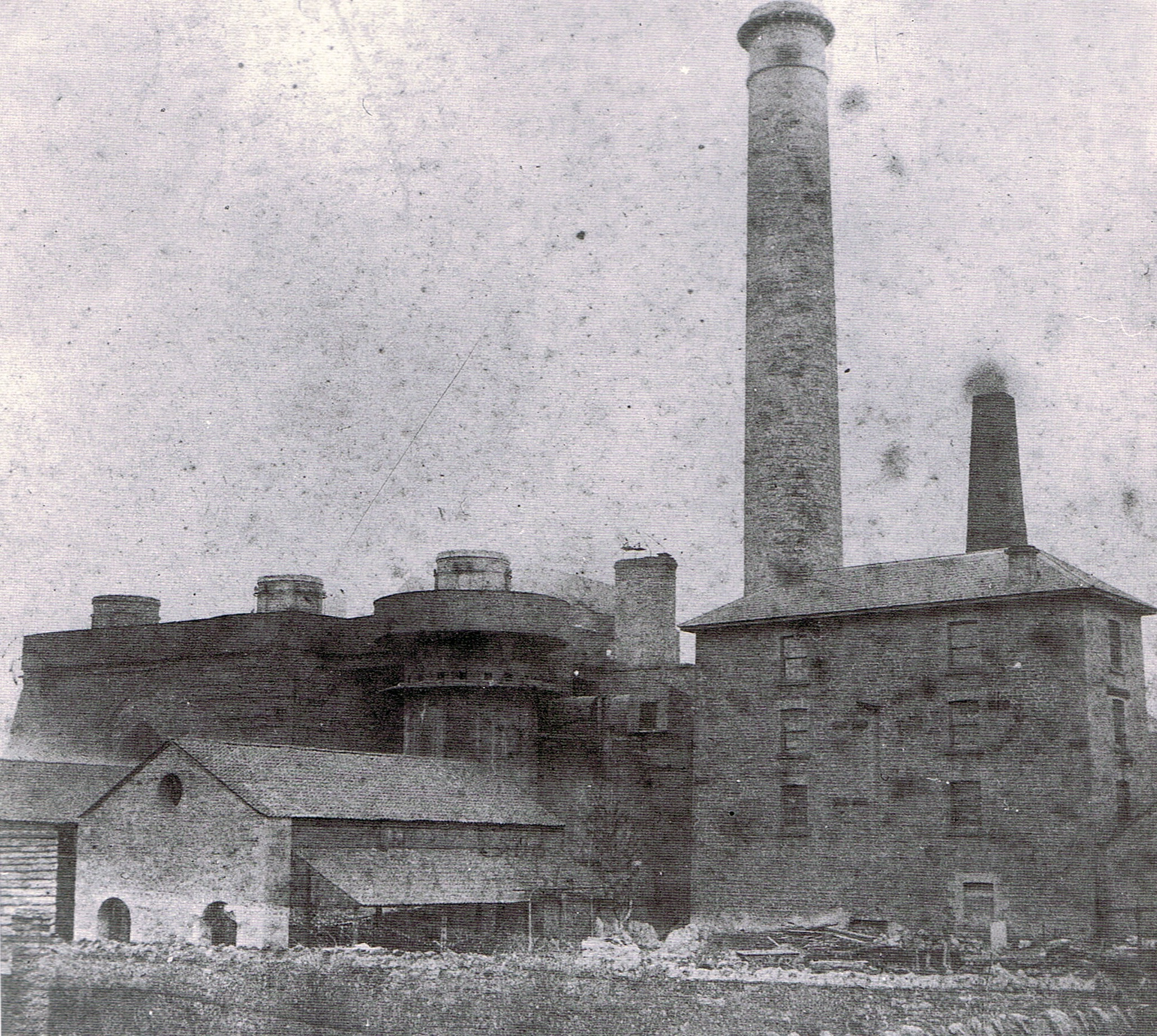 Parkend Ironworks, sometimes refered to as Parkend Furnace